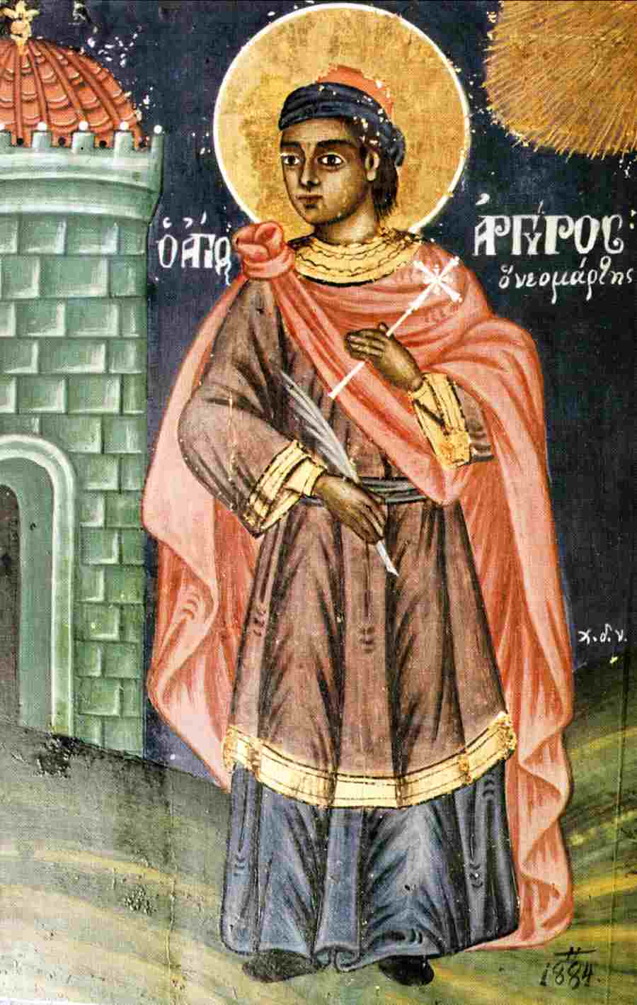 Saint Argyrios from Epanomi icon